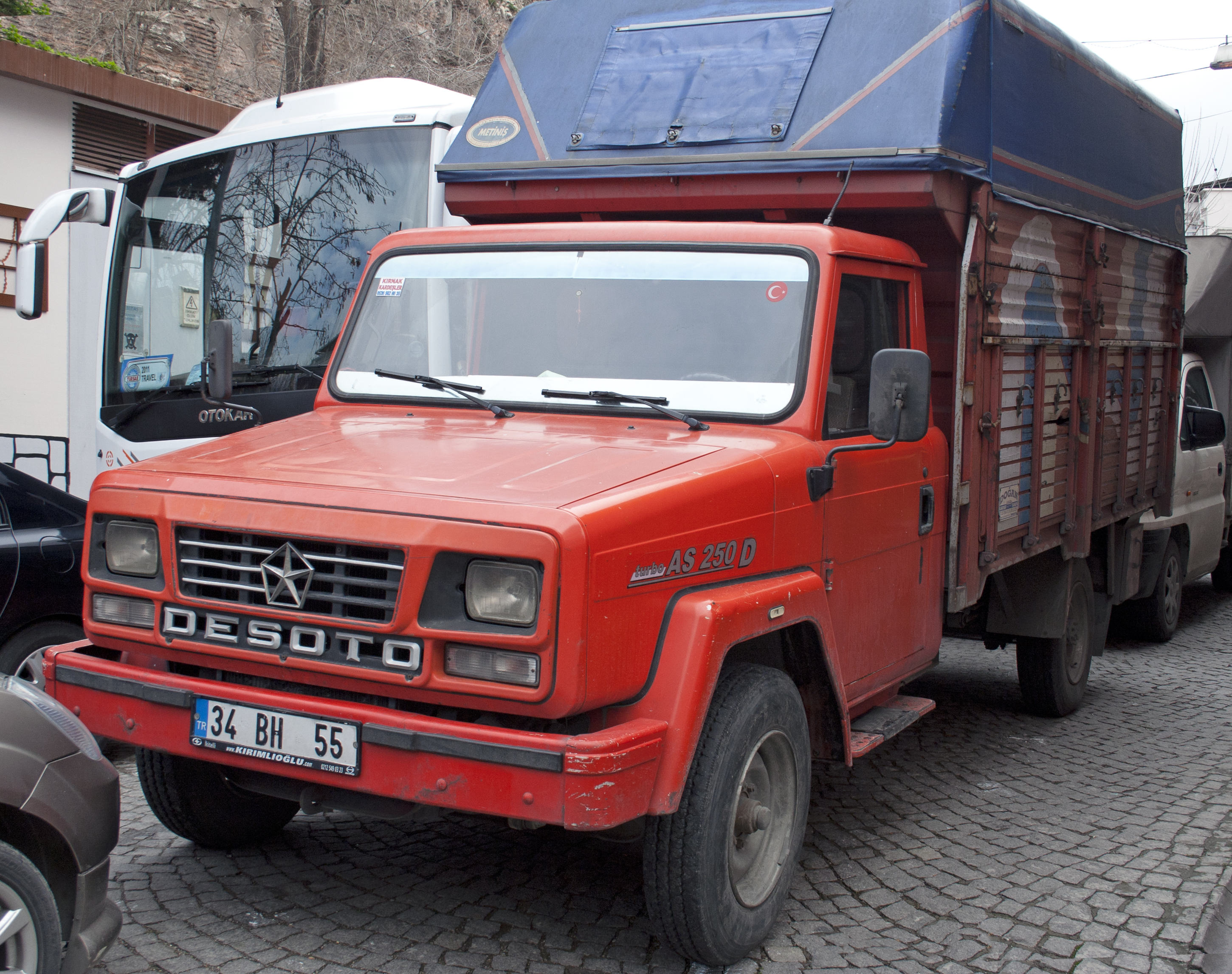 Askam-built De Soto AS250D Turbo truck with typical Turkish superstructure. This is a fairly late version.